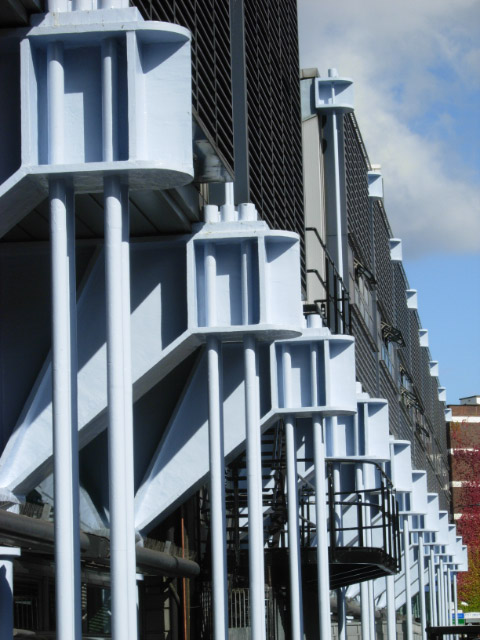 Sainsbury's, Camden Town Love it or loathe it, this building, a Sainsbury's supermarket designed by Nicholas Grimshaw and completed in 1988, is certainly striking.